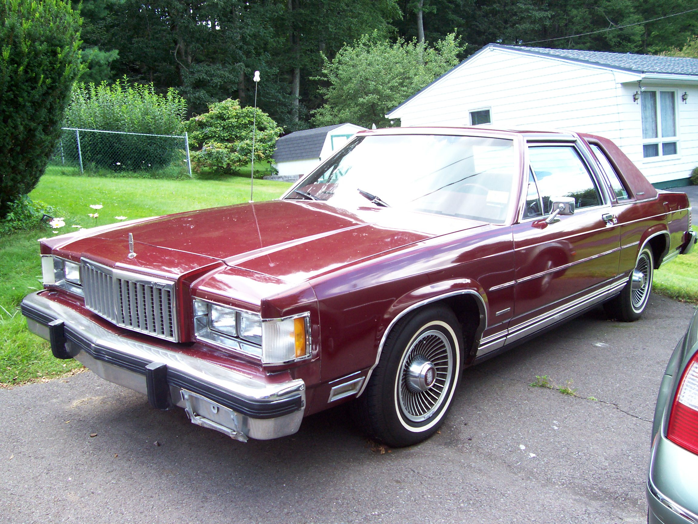 1983 Mercury Grand Marquis LS 2-Door in maroon.